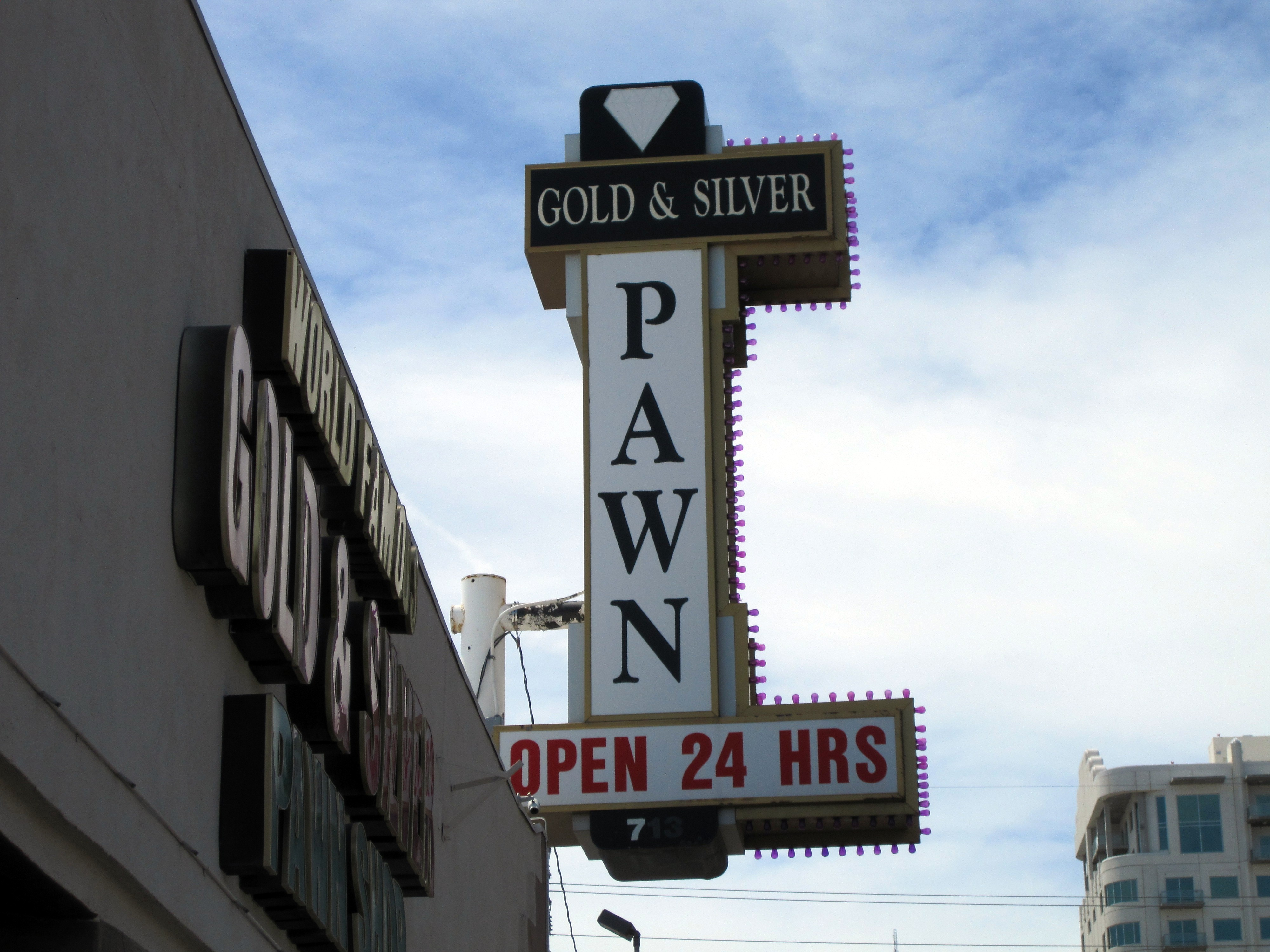 Exterior sign located outside of the door to the shop use at the filming site for the American reality television series Pawn Stars. (The Gold and Silver Pawn shop in Las Vegas)